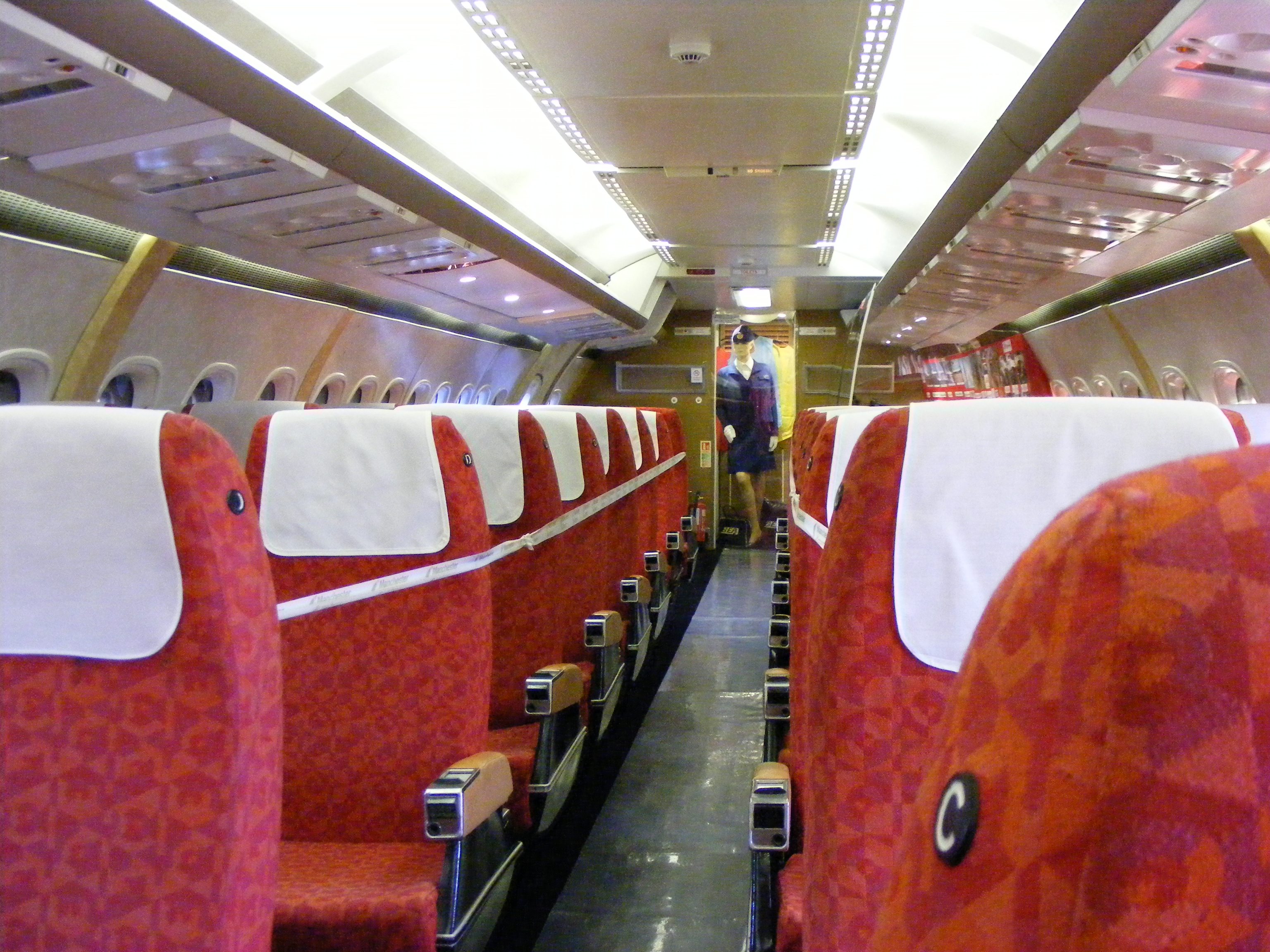 Taken 7/12/2008 "Well worth a couple of quid to walk view inside this aircraft, its a must if its open on a visit."